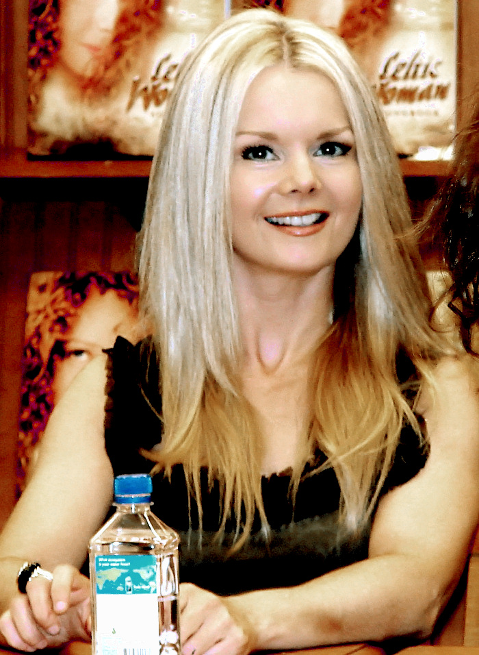 Máiréad Nesbitt at Barnes & Noble signing. Image cropped and recoloured for use in Infobox.